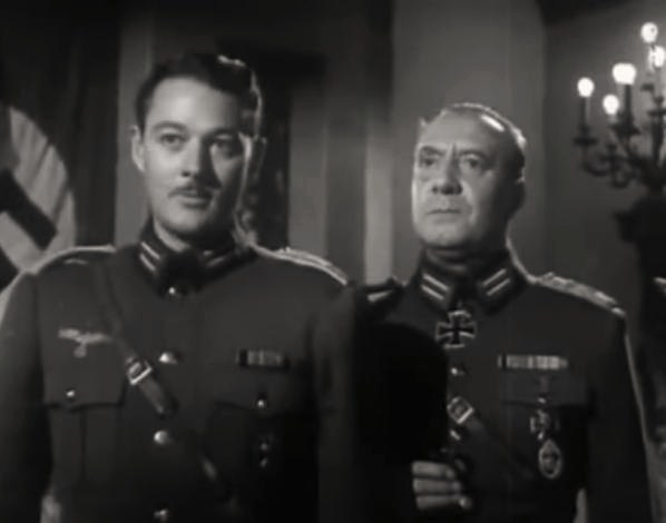 William Henry (left) and Gordon Richards in Women in the Night - cropped screenshot